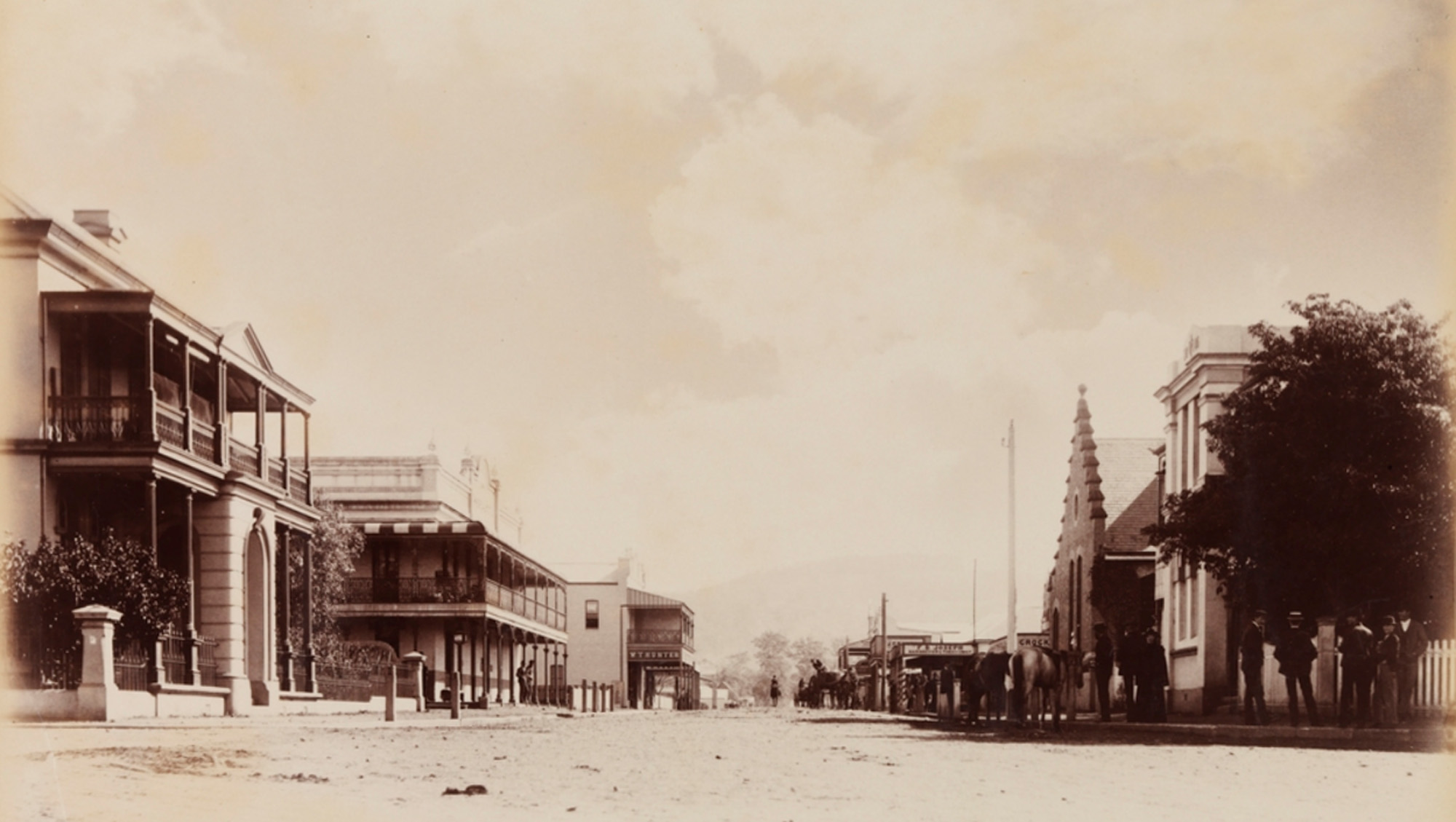 Berry, New South Wales, 1896. 中文（中国大陆）: 在1896年的贝瑞镇